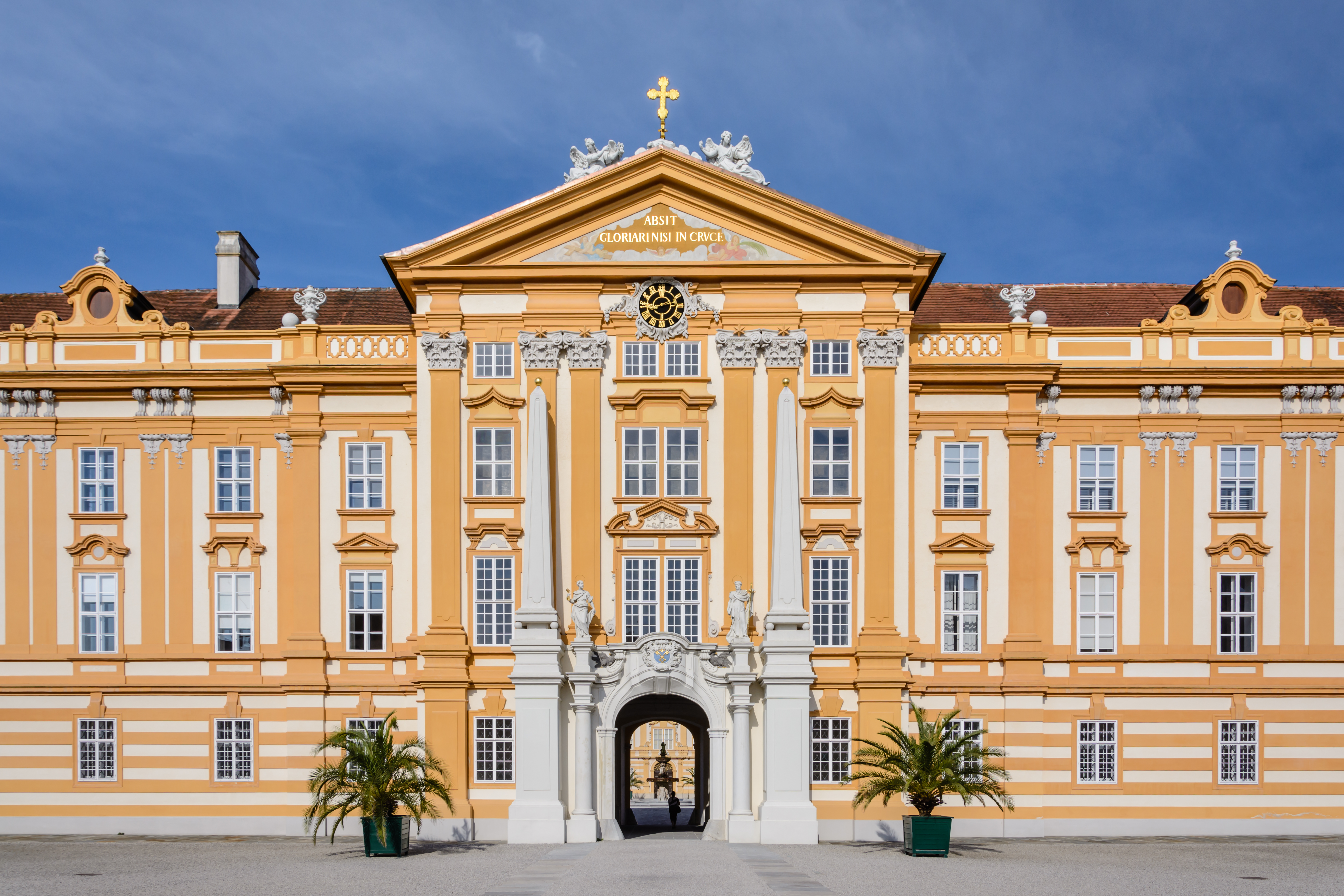 Eastern wing of Melk Abbey, Lower Austria